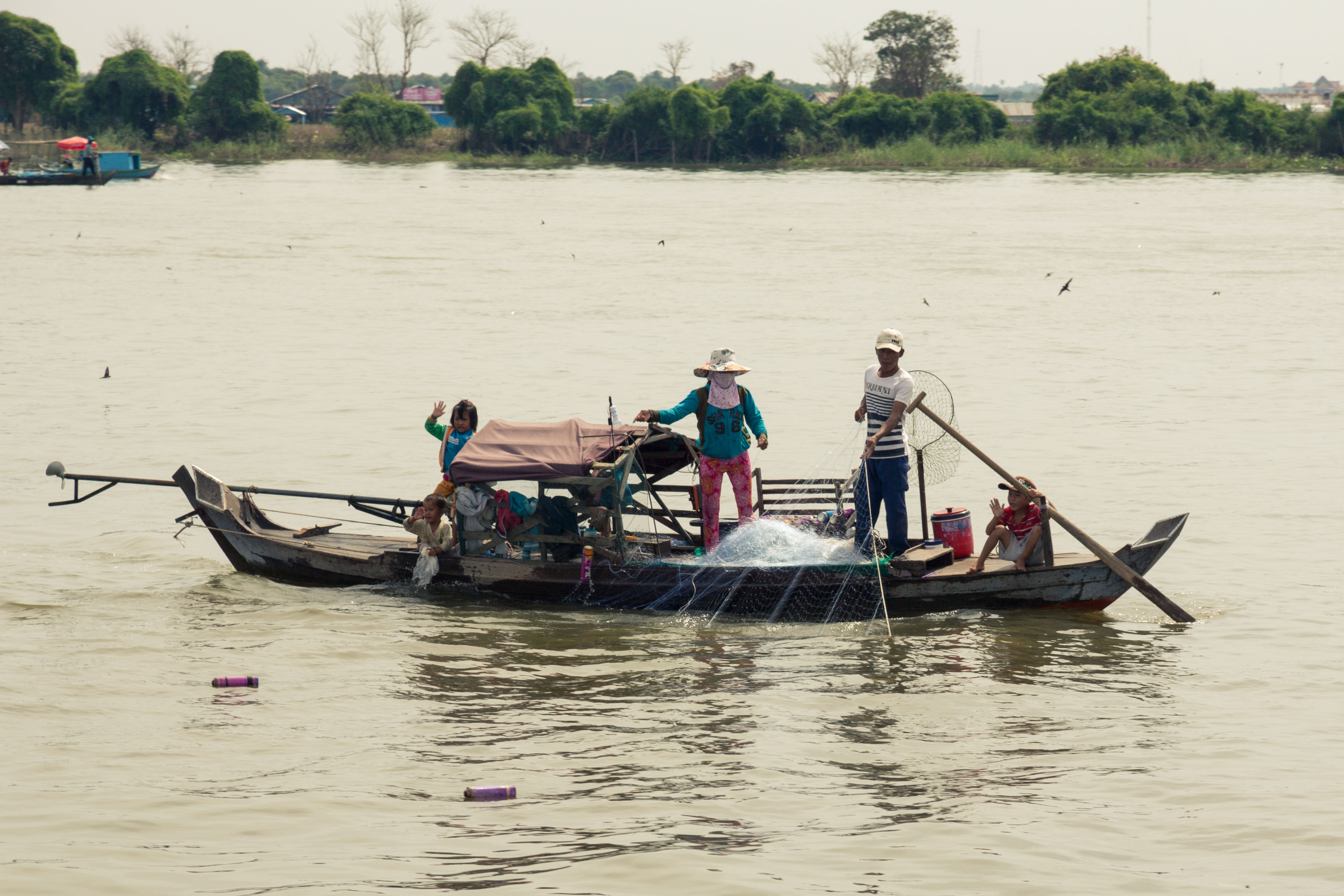 Fishing at Tonle Sap